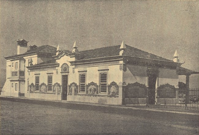 Santiago do Cacem Railway Station, in the Sines Railway, in Portugal. This photograph was published on the Gazeta dos Caminhos de Ferro magazine No. 1076, of the 16th October 1932, and scanned by the Hemeroteca Municipal de Lisboa.